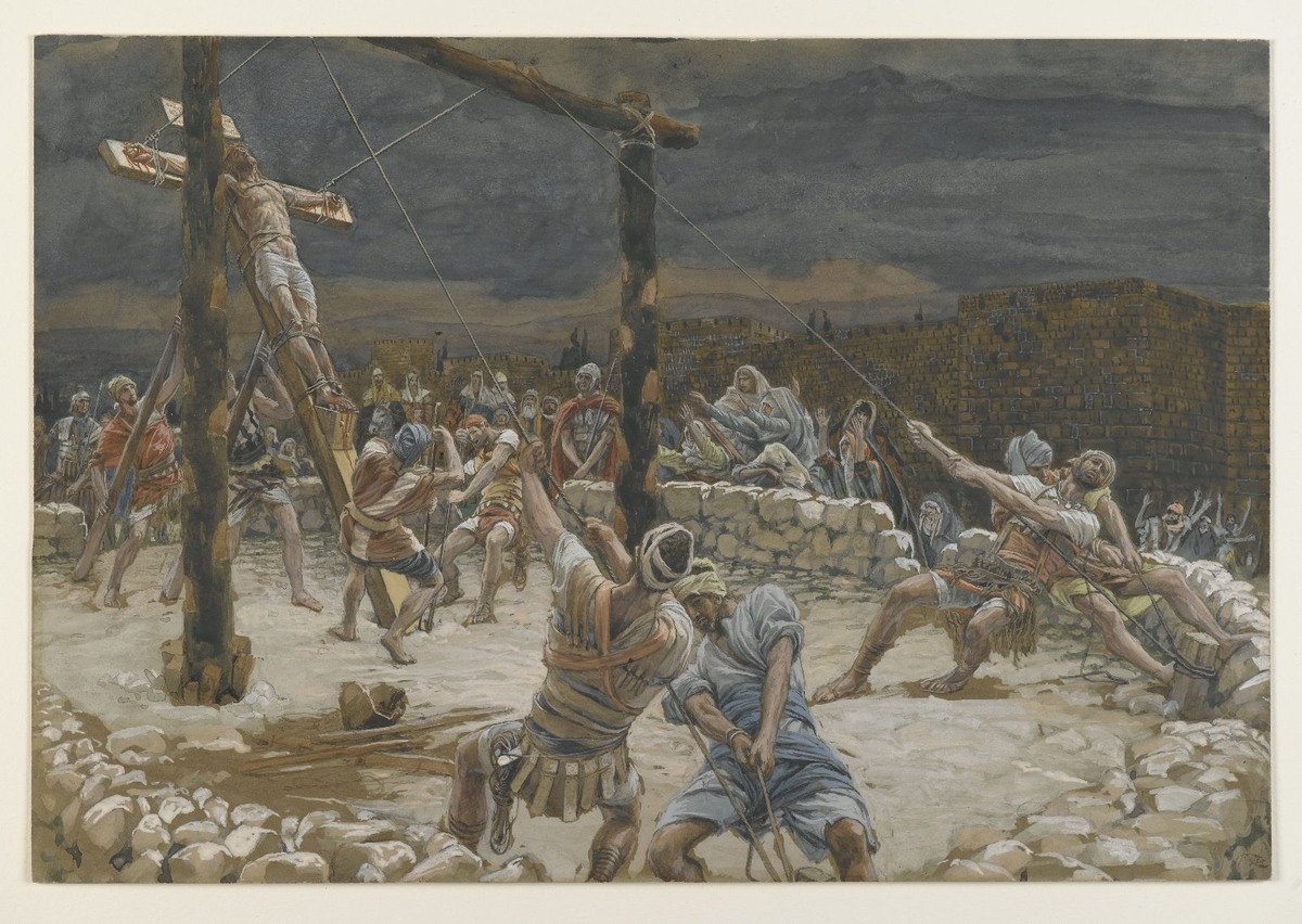 The raising of the cross from the series The Life of Christ by James Tissot, Brooklyn Museum